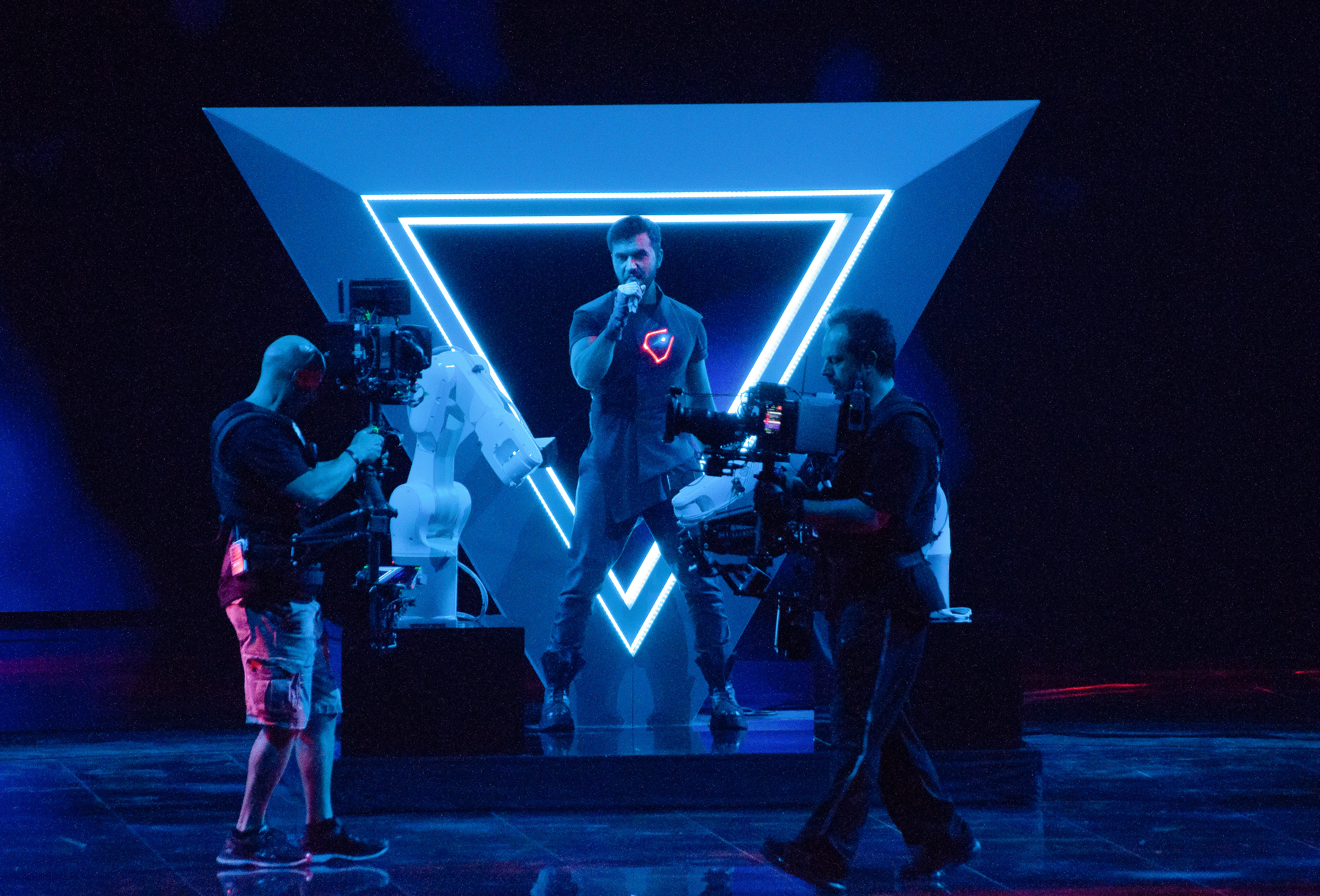 At the 2019 Eurovision Song Contest Semi-final 2 dress rehearsal